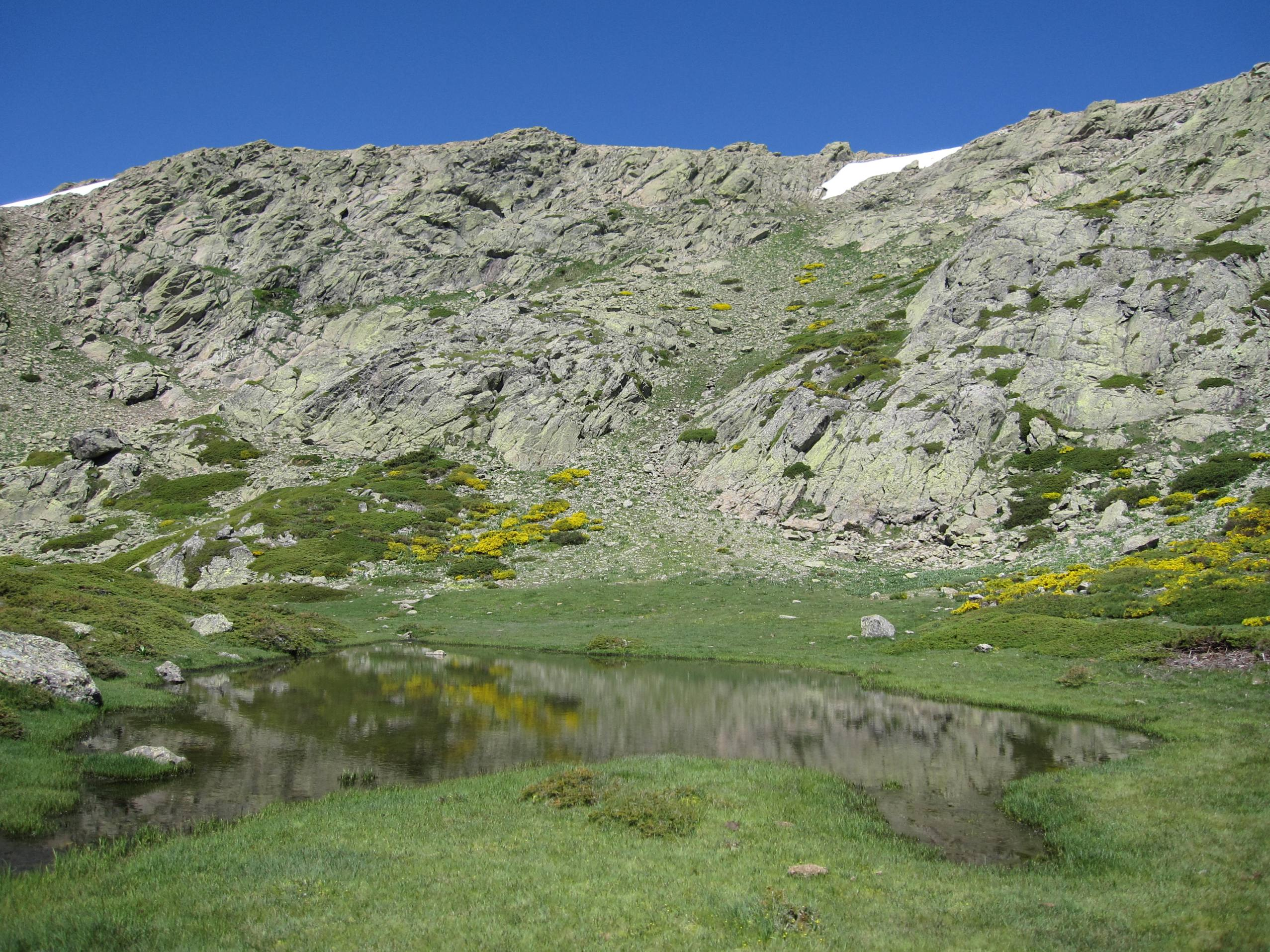 El Nevero peak and the lake of its glacial circus (Guadarrama mountain range, central Spain).